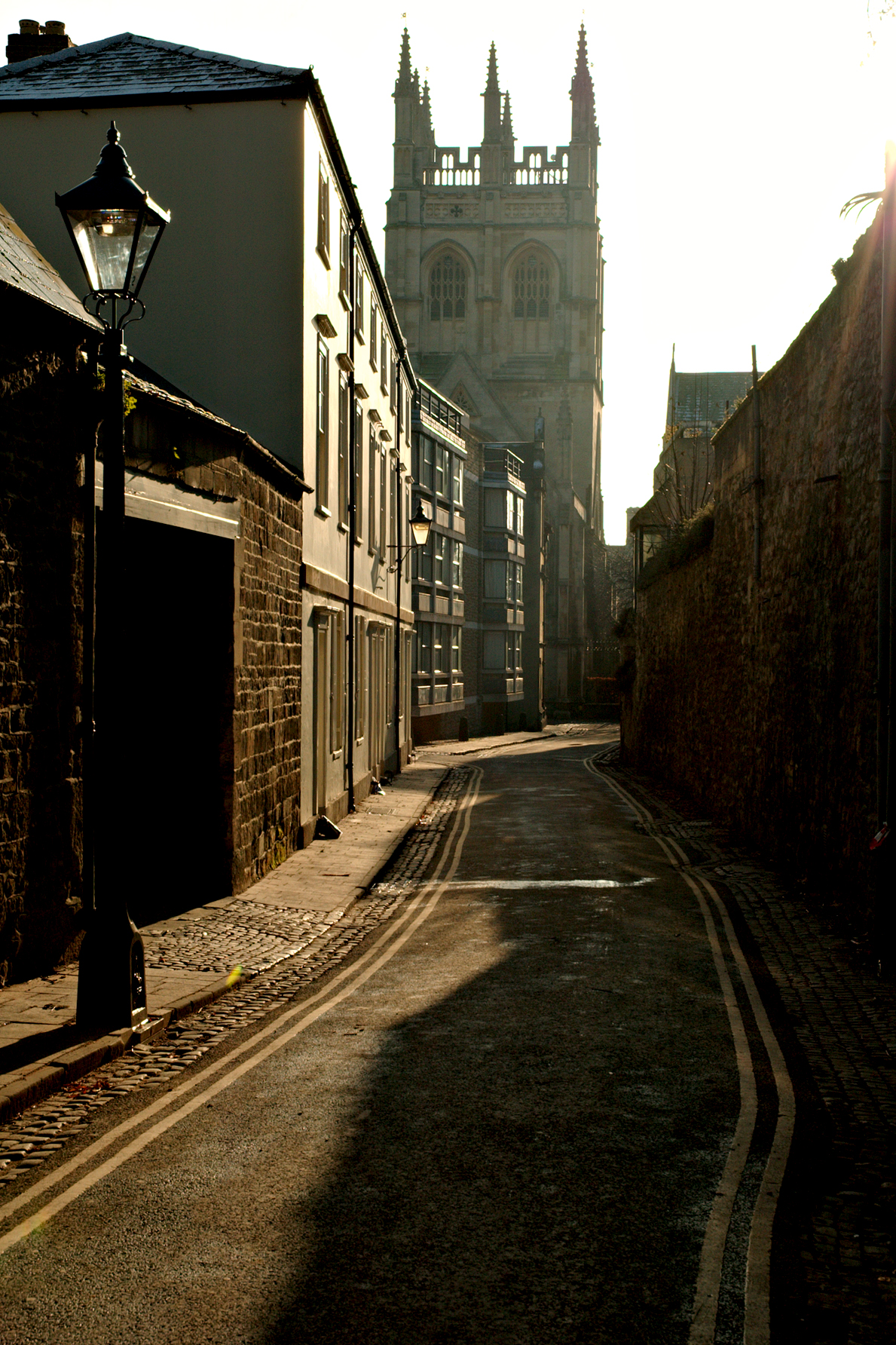 Photograph of Magpie Lane, Oxford. Taken by myself 2005.